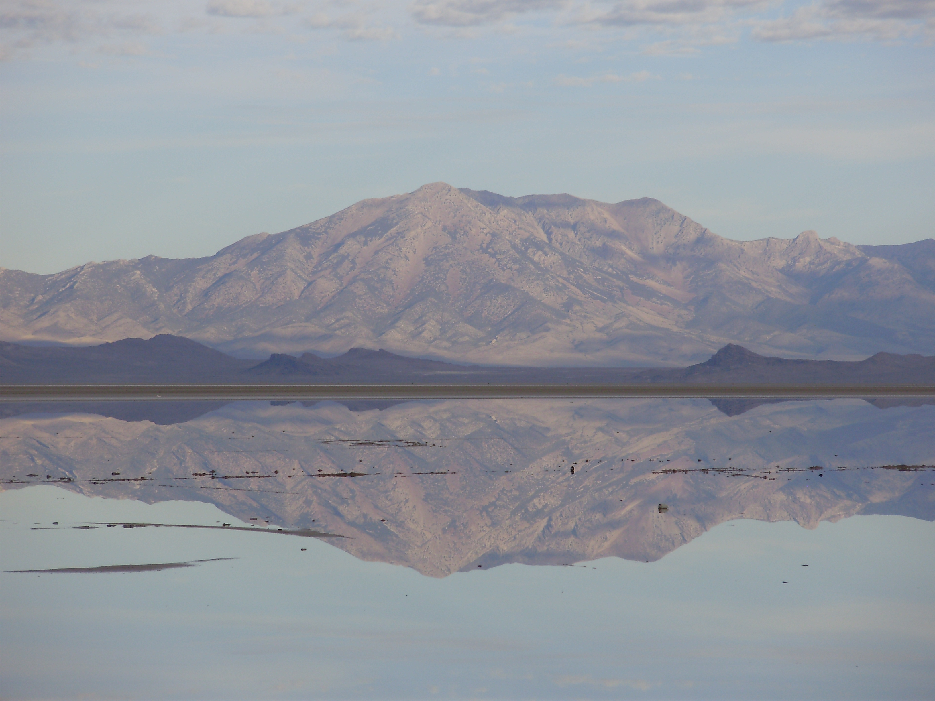 View of Pilot Peak, Nevada from milepost 18 on Interstate 80 in the Bonneville Salt Flats of Tooele County, Utah, with still waters over the salt flats reflecting the clouds and mountains